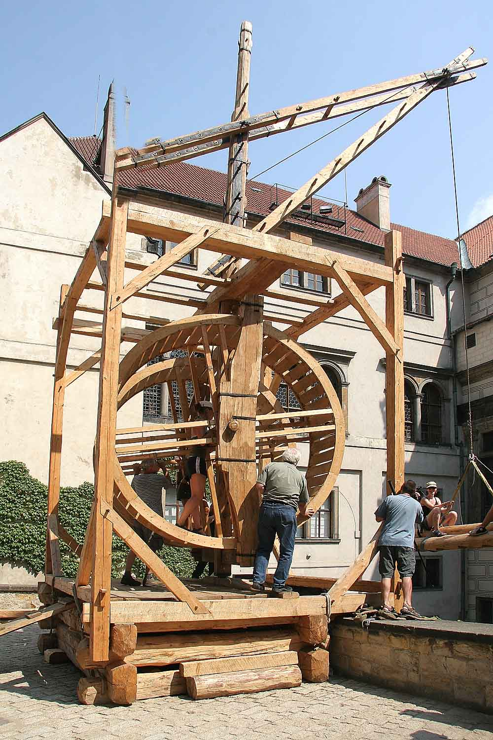 Replica of 14th century wooden crane. On display at Prague Castle, Czech Republic, July 2006.